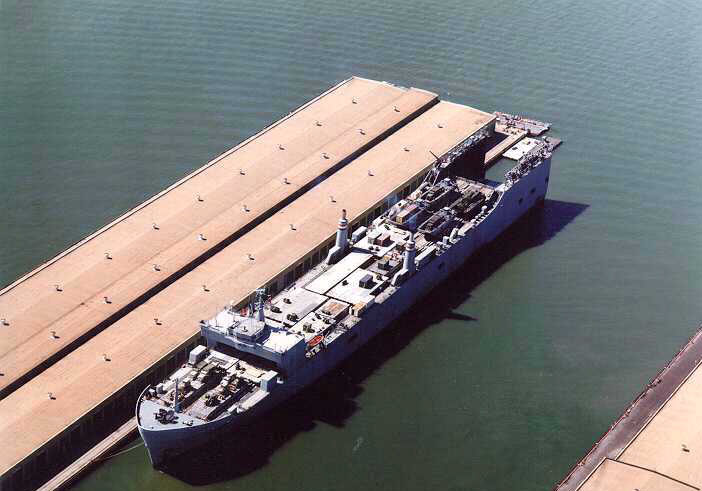 SS Cape Mohican is one of Military Sealift Command's two Heavy Lift Ships and one of the 44 RRF ships in the Sealift Program Office.